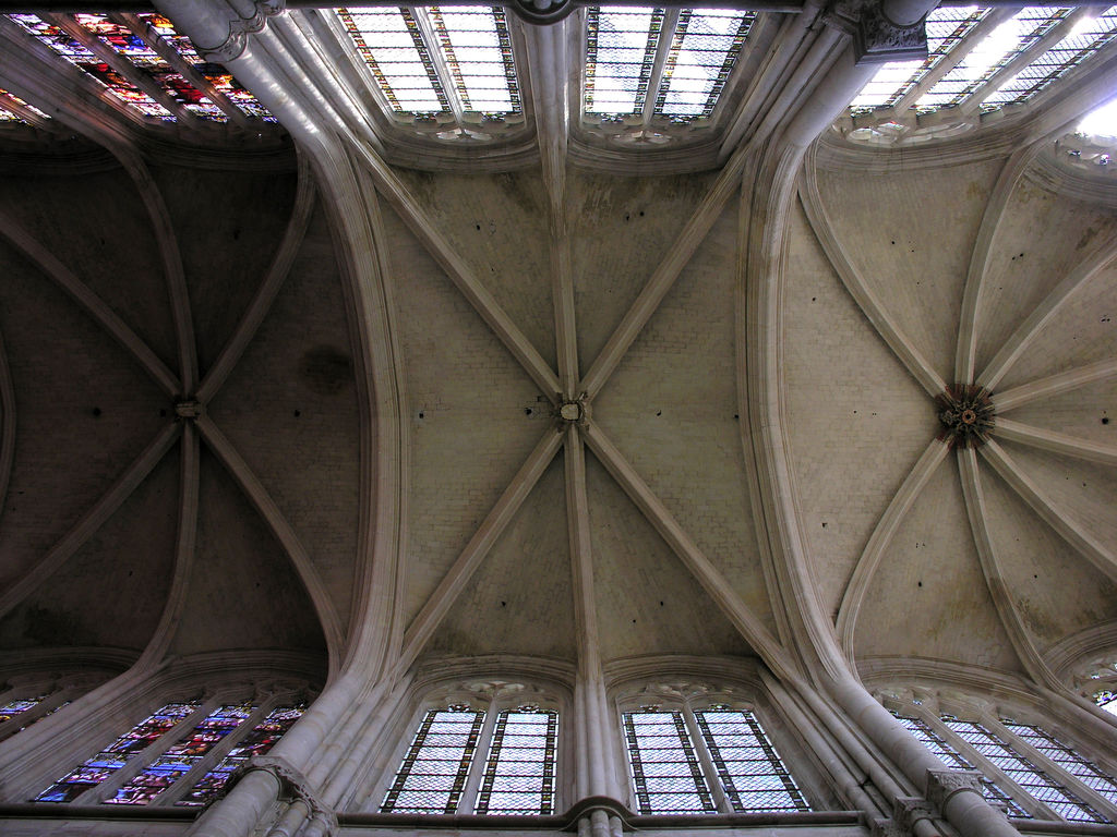 Senlis, cathedral Notre-Dame, vaults of the choir. Fly to this location (Requires Google Earth)